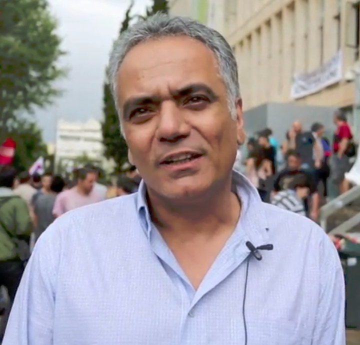 Greek politician Panos Skourletis at a 2013 protest against the shutdown of Greek public broadcaster ERT.